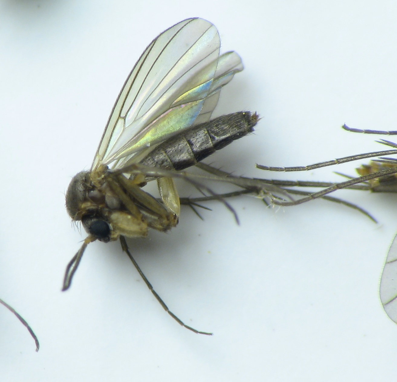 Phronia female (3-3.5 mm) found in Jack-in-the-pulpit. Pennypack Restoration Trust, Montgomery County, Pennsylvania, USA.